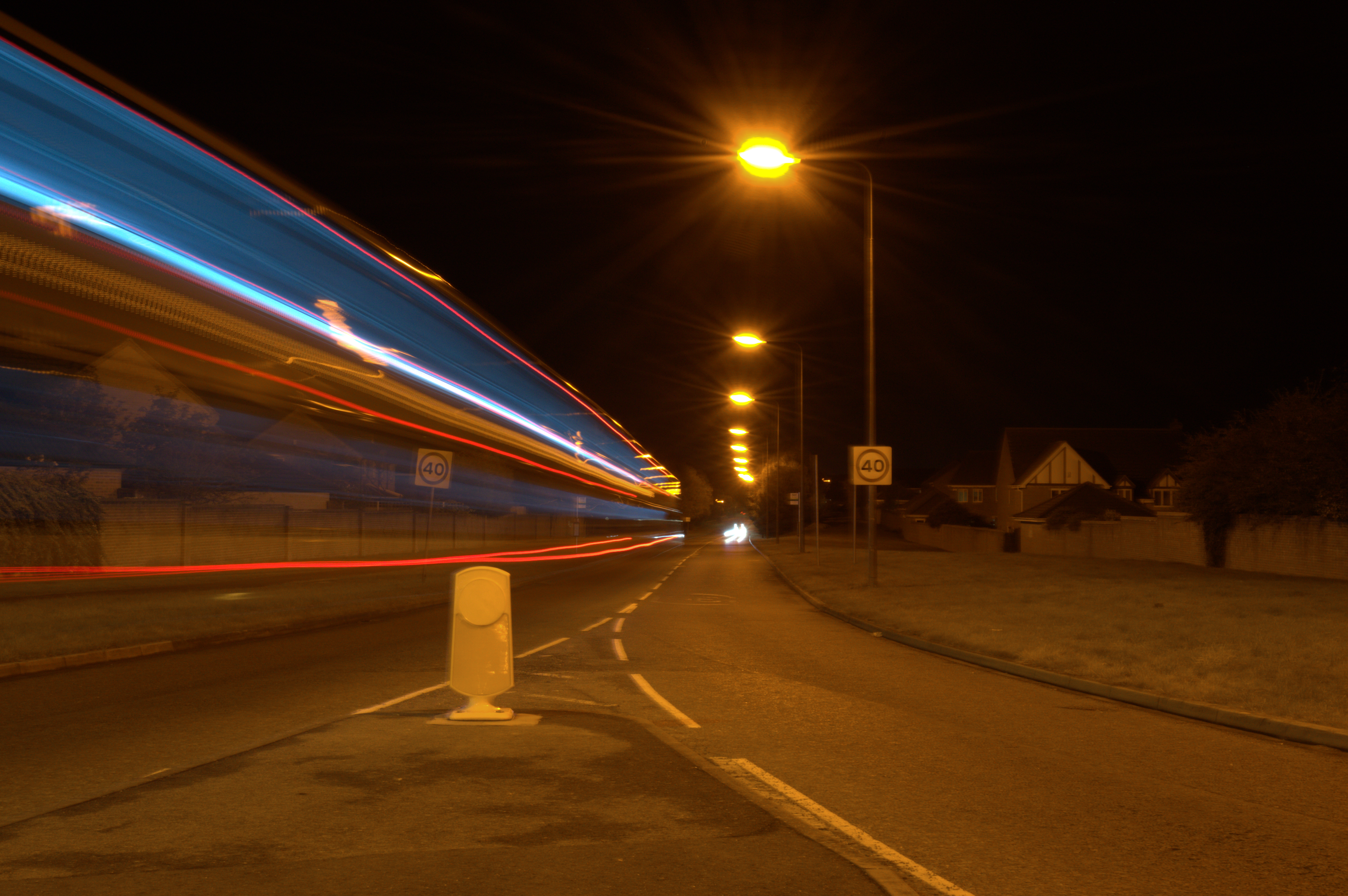 Double-decker First Bus leaving roundabout in Bristol, England. Lit by sodium-vapour discharge street lights.